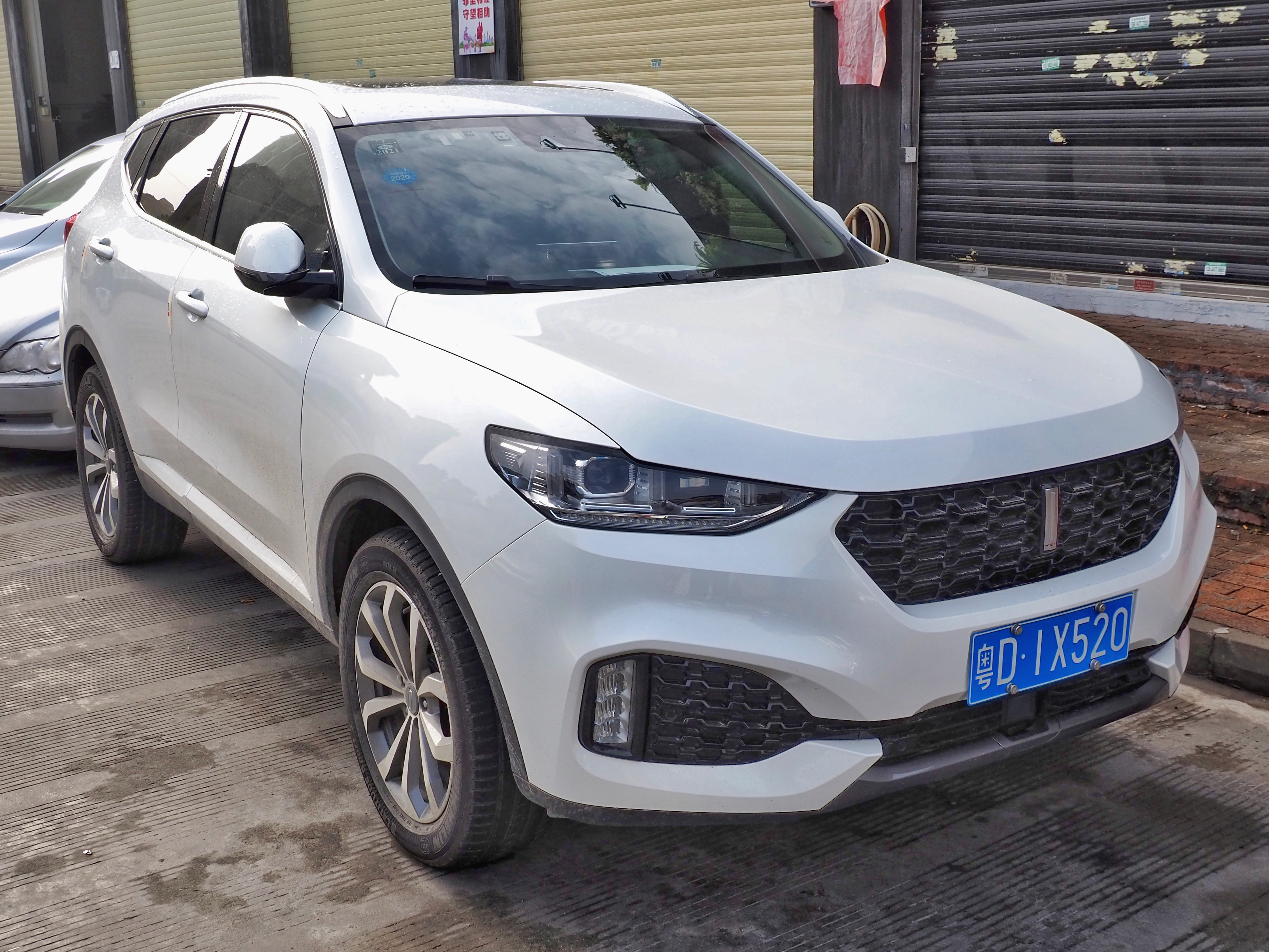 A 2018 WEY VV6 photographed in Shantou, Guangdong province, China. 中文（中国大陆）: 一辆2018年的魏派VV6，拍摄于中国广东省汕头市。